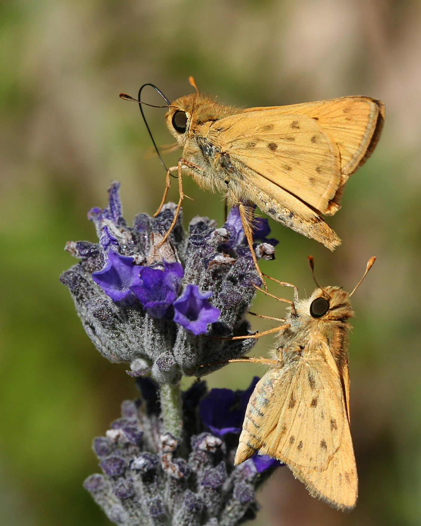 Two fiery skippers (Hylephila phyleus).